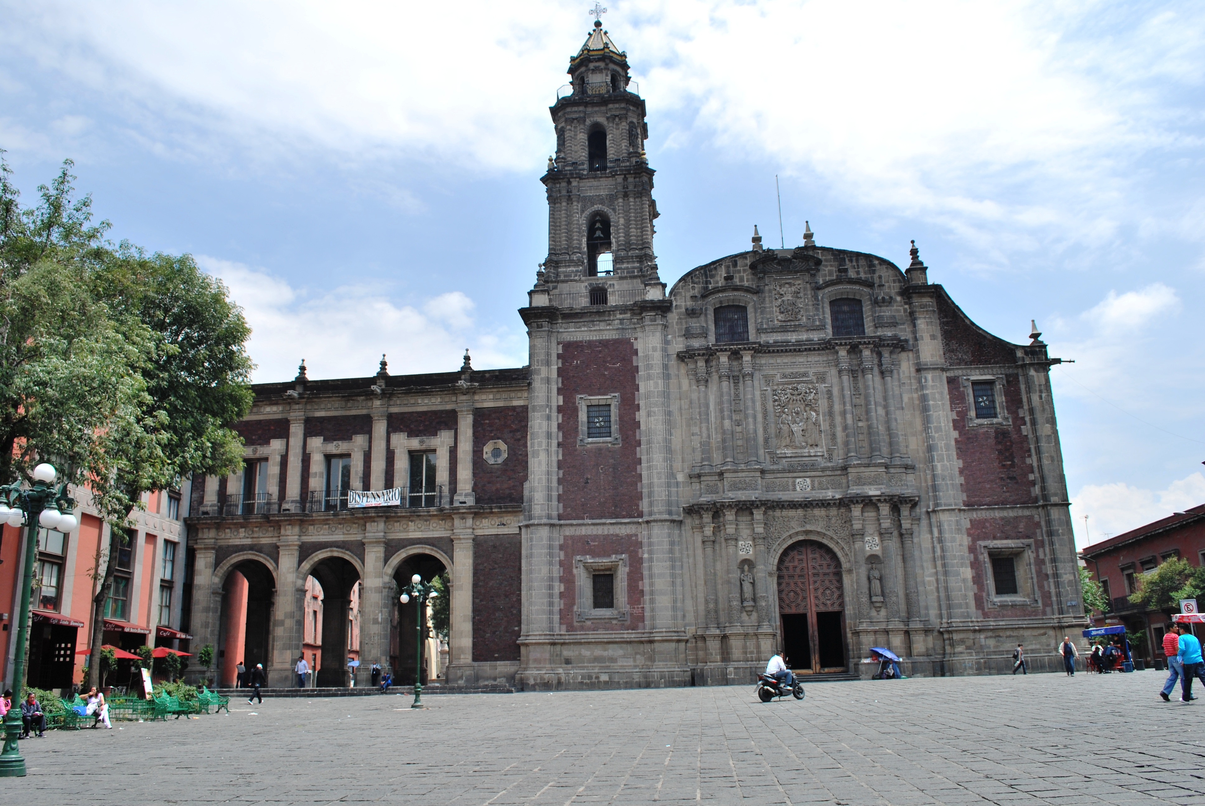 Church of Santo Domingo located on the Plaza Santo Domingo on corner of Republica de Brasil and Belisario Dominguez streets in the Centro of Mexico City